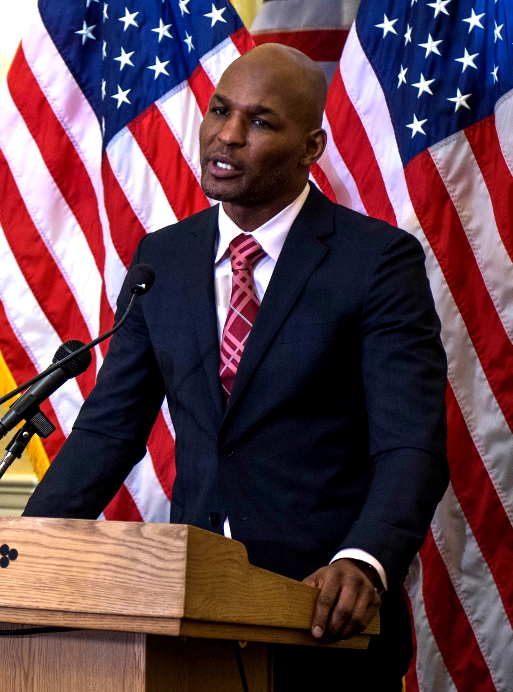 Bernard Hopkins making a speech at the United States Capitol at the summit that has been organized by the Cleveland Clinic Lou Ruvo Center for Brain Health on February 4, 2014, the day after the death of Oscar Gonzalez.